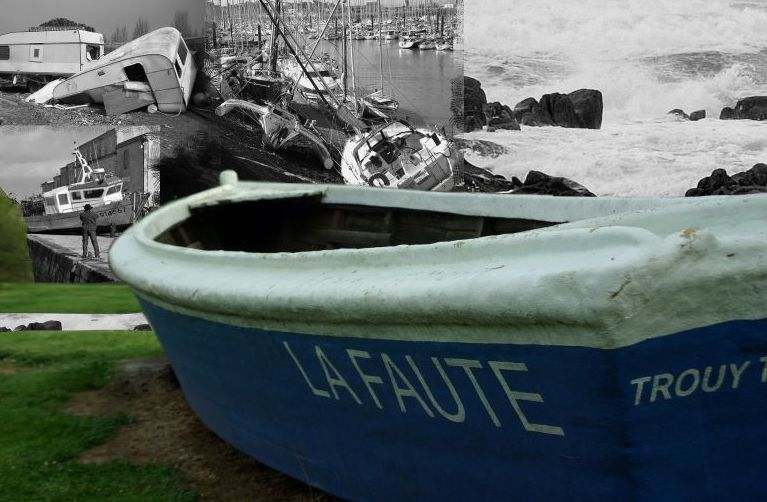 Commémoration événements de La Faute sur Mer